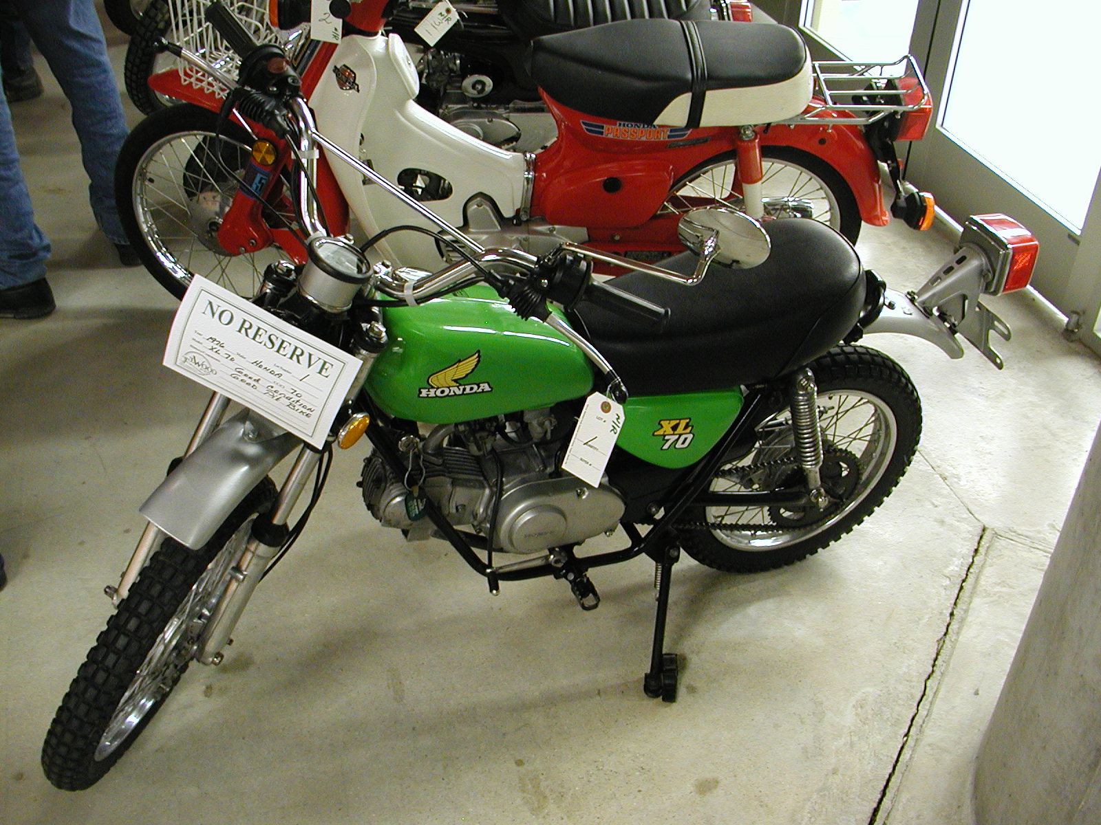 Barber Motorcycle Museum - Oct 22 2006 (57) Honda XL70